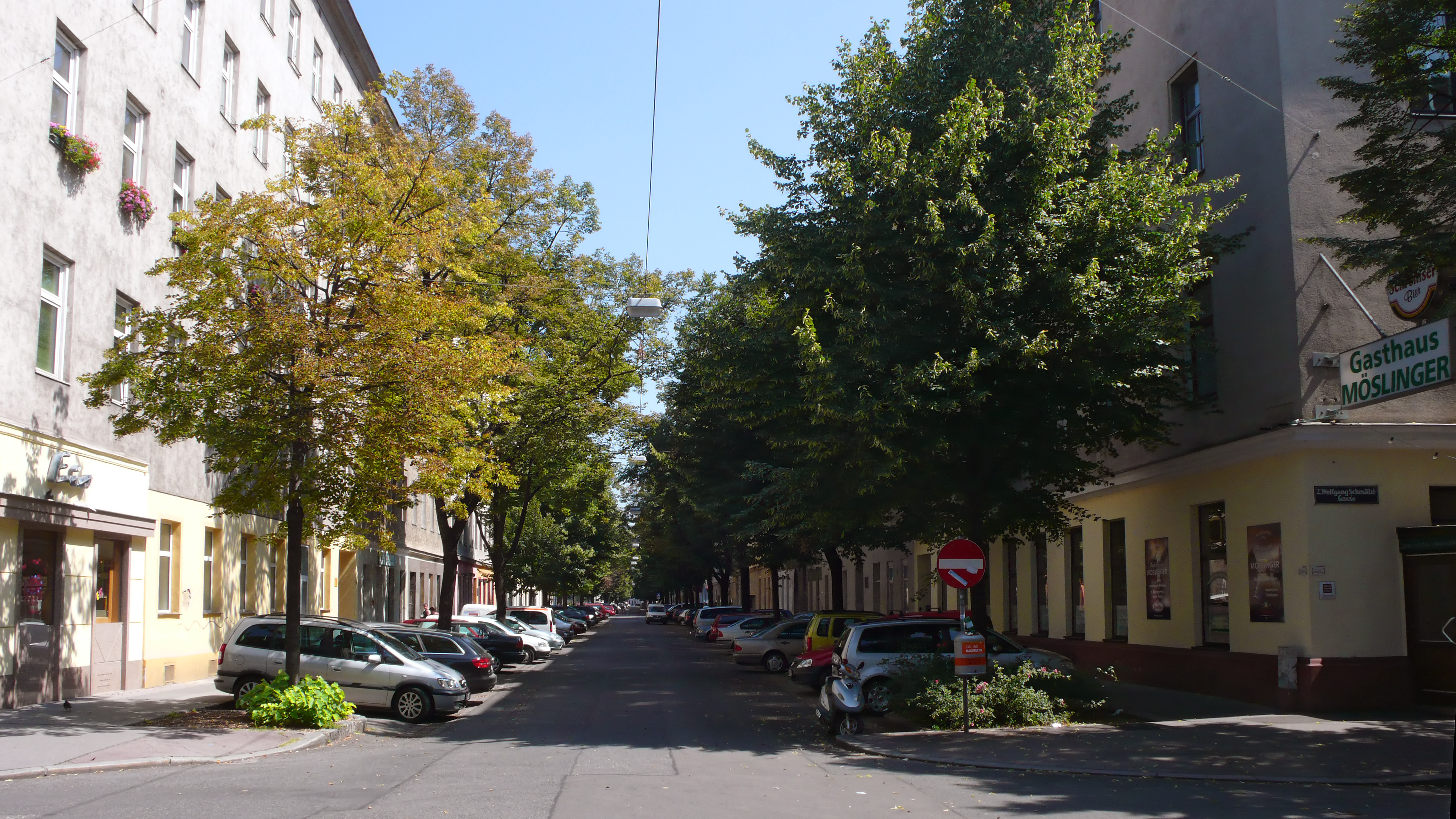 Vienna 2, Stuwerstraße 12